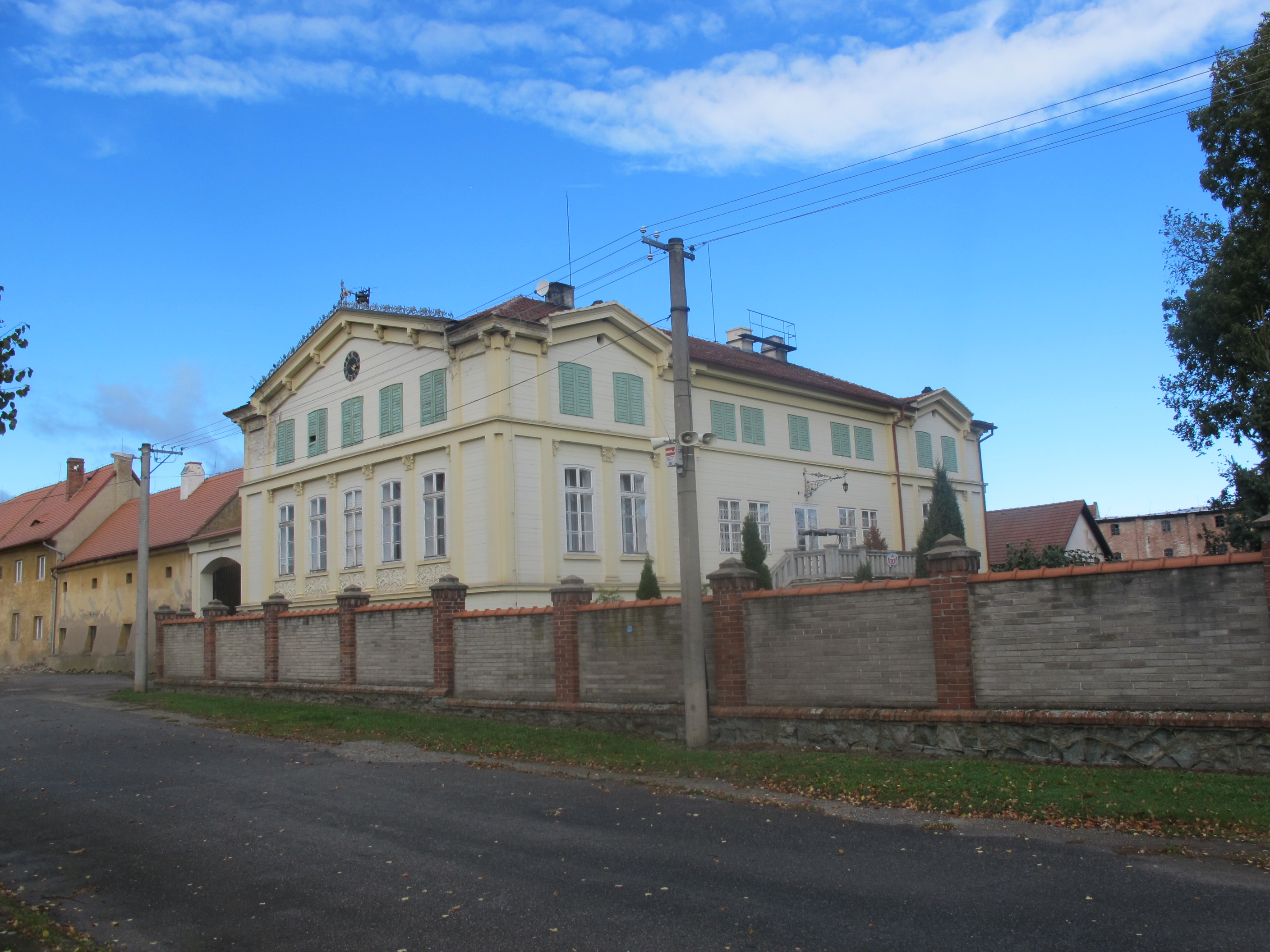 Castle in Strkovice